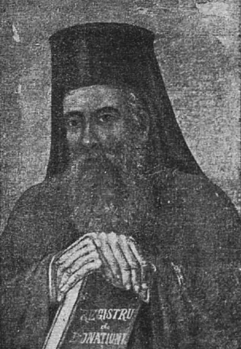 Portrait of Scarlat (Sofronie) Vârnav, the Romanian revolutionary politician and collector, as an Orthodox monk. He is shown holding a Registru de donațiune ("Donations Record"), alluding to his work as a philanthropist and advocate.